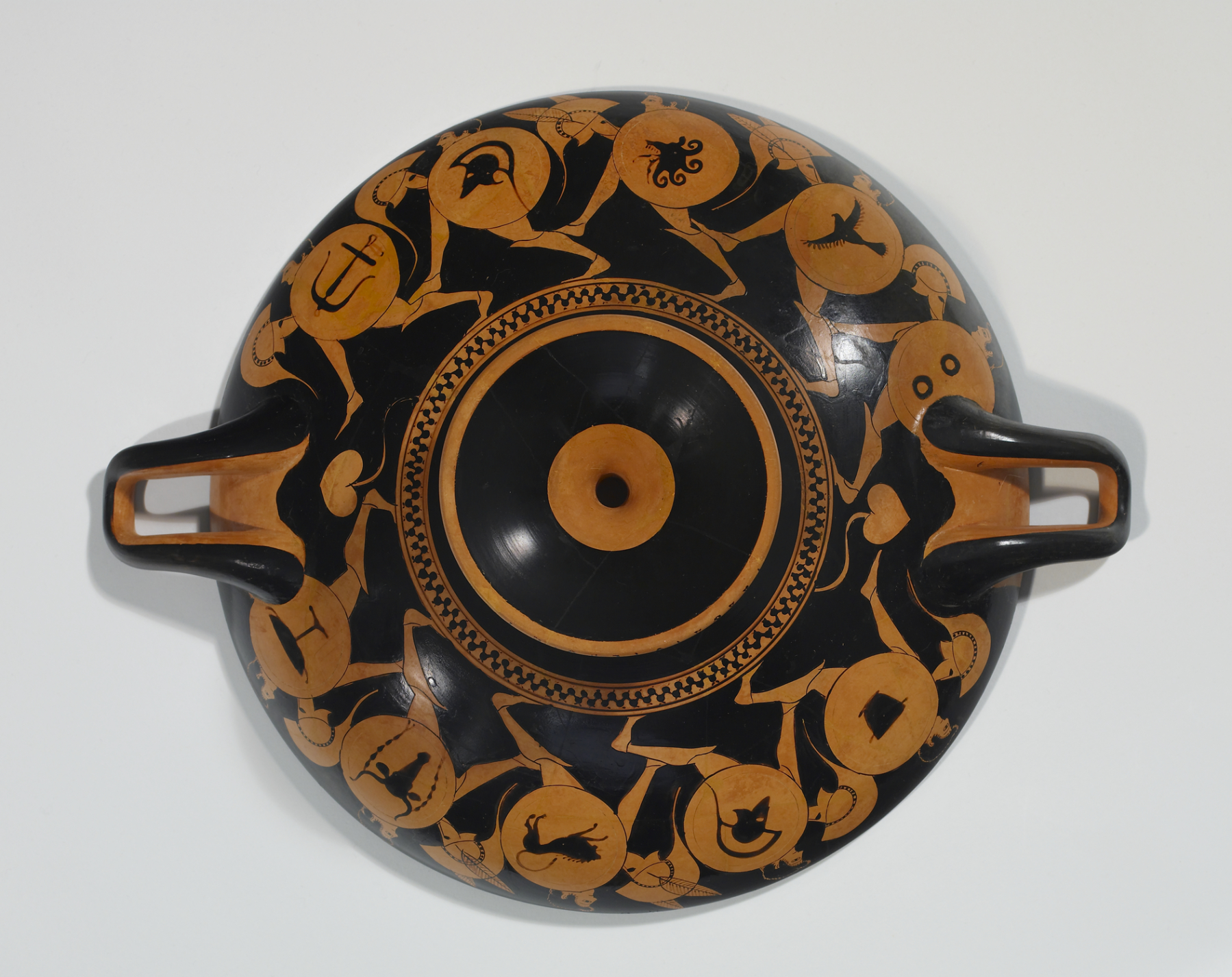 Pamphaios, one of the premier potters of Athens in this period, made this elegantly shaped "kylix" and signed his name around the thin edge of the foot. Another artist, known as the Nikosthenes Painter, depicted a festive celebration of manhood in the chain of young warriors that runs around the vase's exterior. Each warrior carries his helmet and bears a shield with a unique emblem. The single figure in the "tondo" (circular area) of the vase's interior has a skillfully drawn a scorpion on his shield.